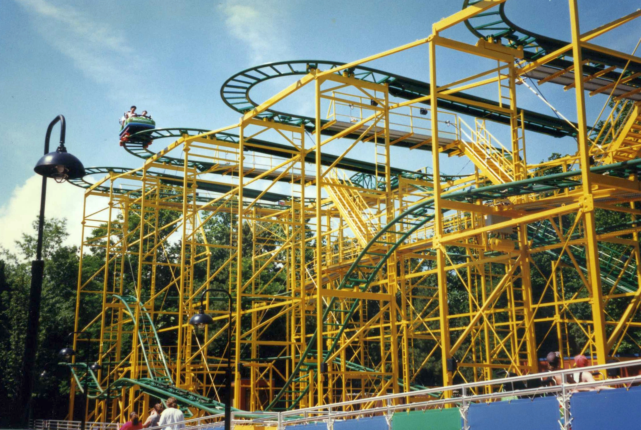 The ride while it was Wild IzzyBusch Gardens Williamsburg 1996 Wild Izzy coaster